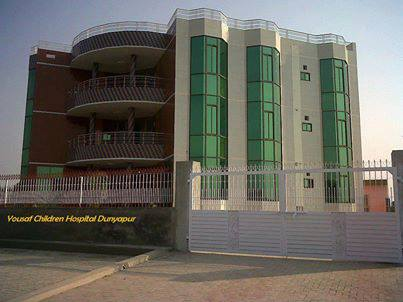 r Well Known People and Groups Edit TURK Group is the most famous and iconic group of four friends of Dunyapur public school Dunyapur. It consists of :- 1.T for Talha 2. U for Usama 3. R for Rawal 4. K for Khawar They also have a best friend named Haris